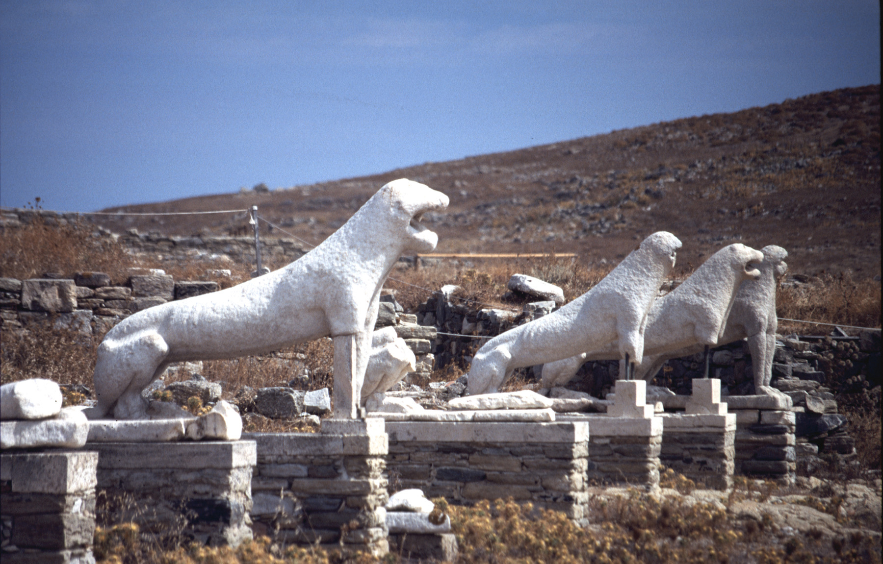 AWIB-ISAW: Delos (XII) Modern replicas of the lion statues that once lined the Naxian Lion Terrace (dedicated to Apollo by the people of Naxos, c. 600 BCE) at Delos. by Harry Meyer copyright: Harry Meyer (used with permission) photographed place: Delos (Delos) Published by the Institute for the Study of the Ancient World as part of the Ancient World Image Bank (AWIB). Further information